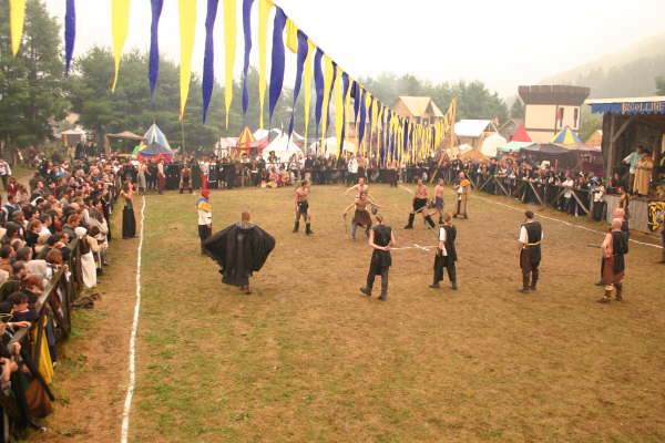 Players taking part in a game of Trollball at the live action role-playing game Bicolline in Quebec as a crowd looks on.